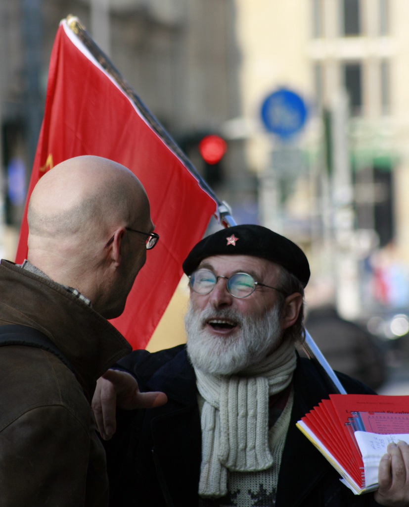 German communist Hans-Jürgen Westphal at Prager Strasse, Dresden, Germany in 2008.